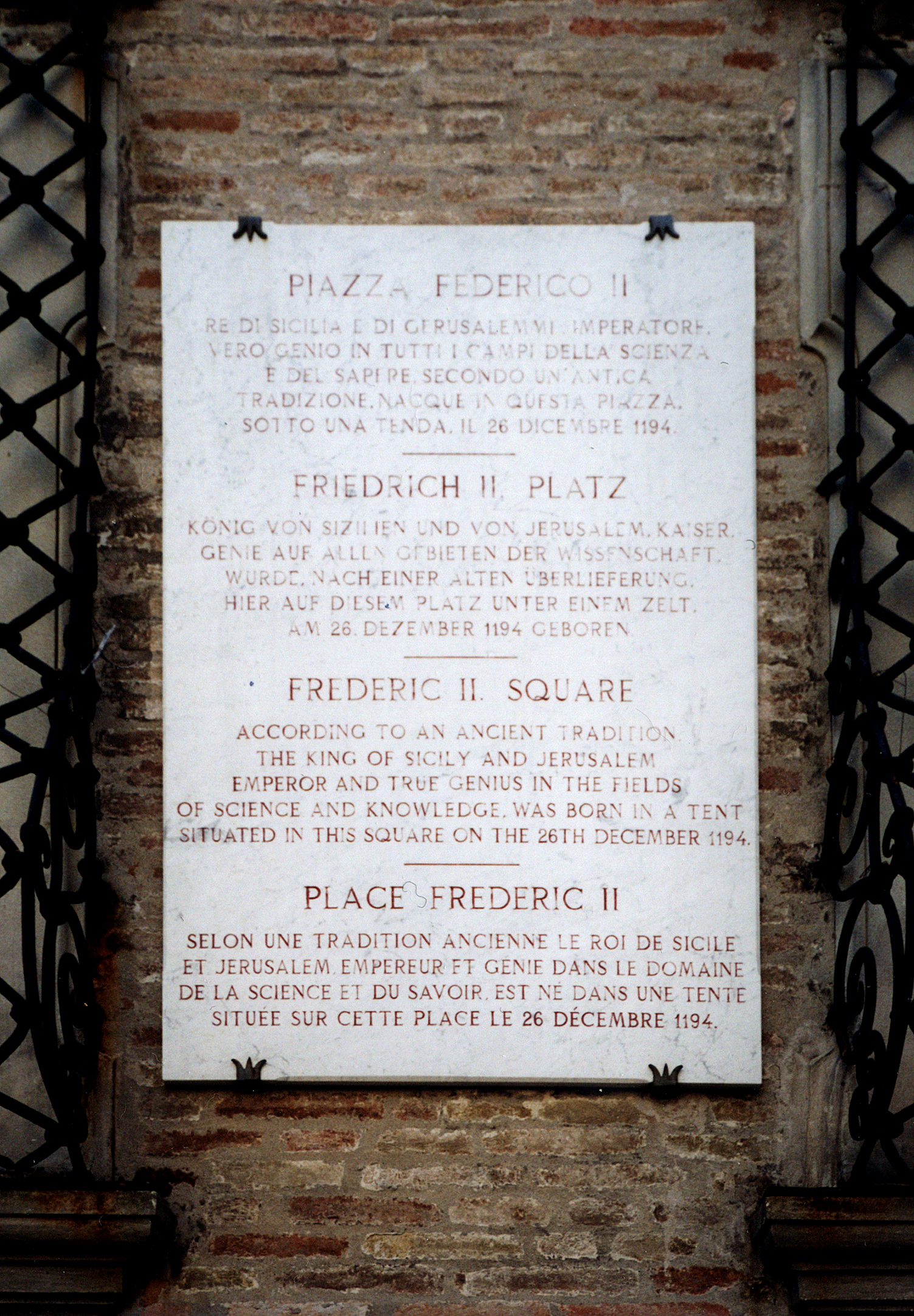 Sign at the "Piazza Federico II" in Jesi in Italy.